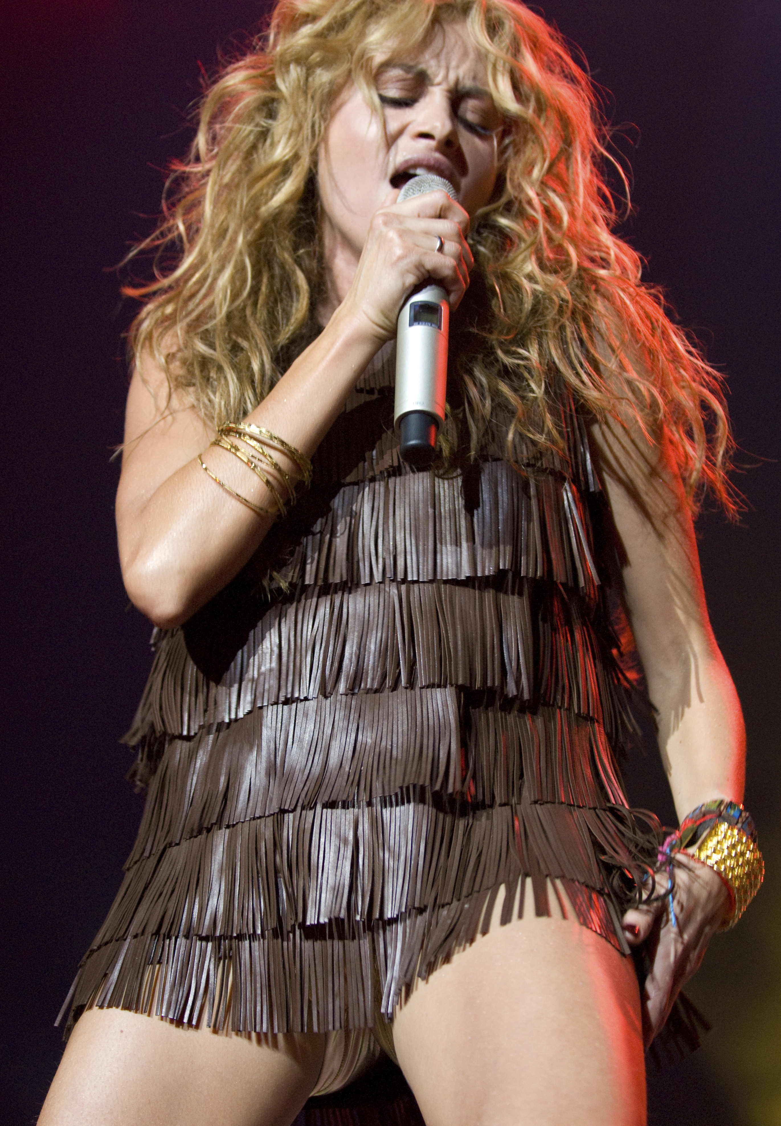 Paulina Rubio. Performing a live concert in the Asics Music Festival, Barcelona, October 2007.